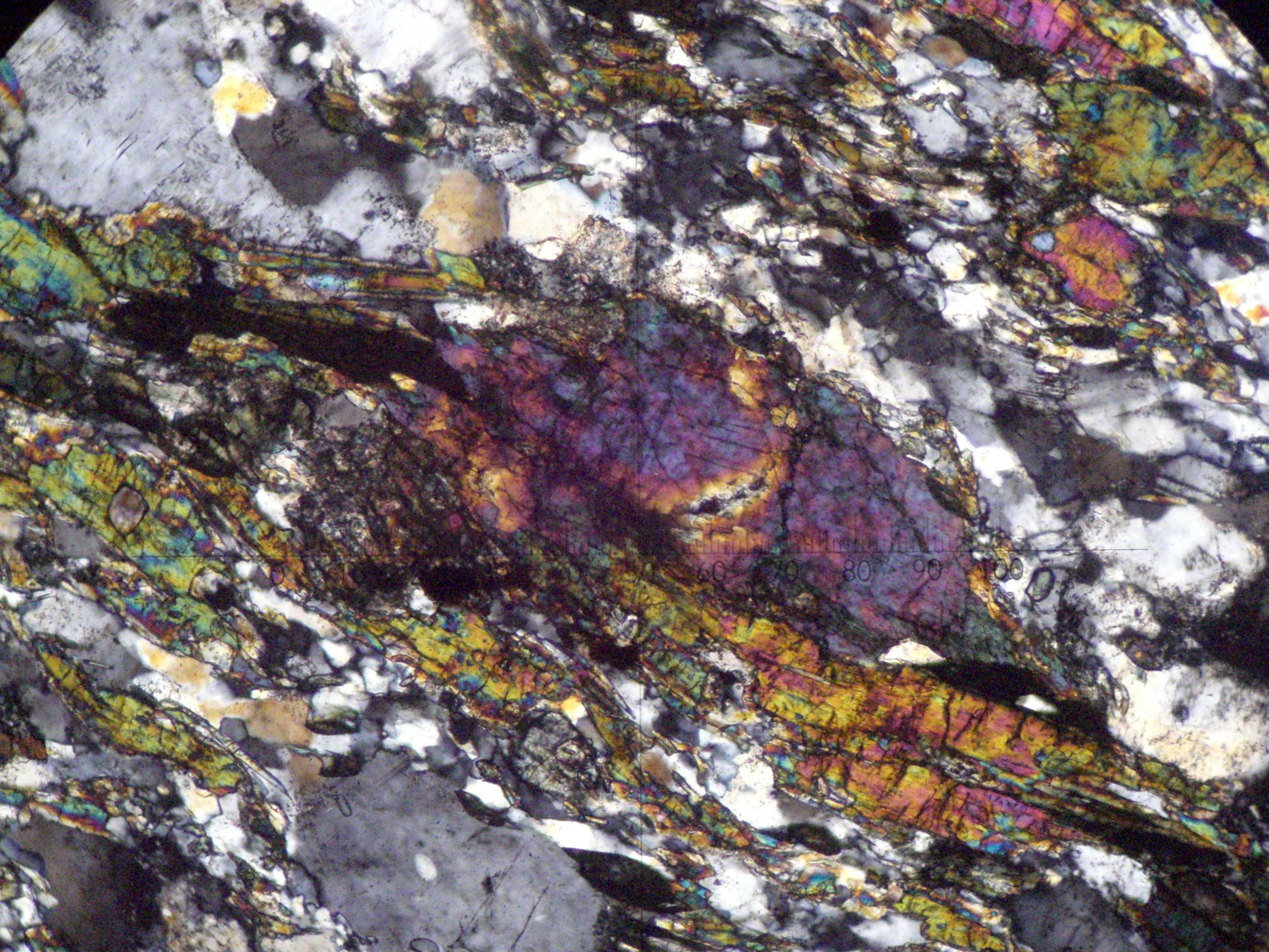 Metamorphic rock Amphibolite in microscope. Two nicols.